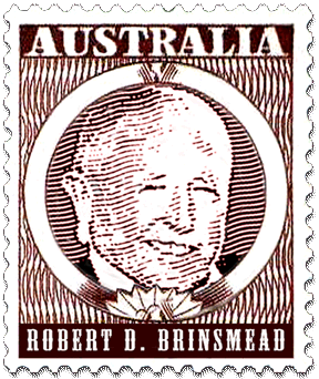 Robert D. Brinsmead Portrait Artwork